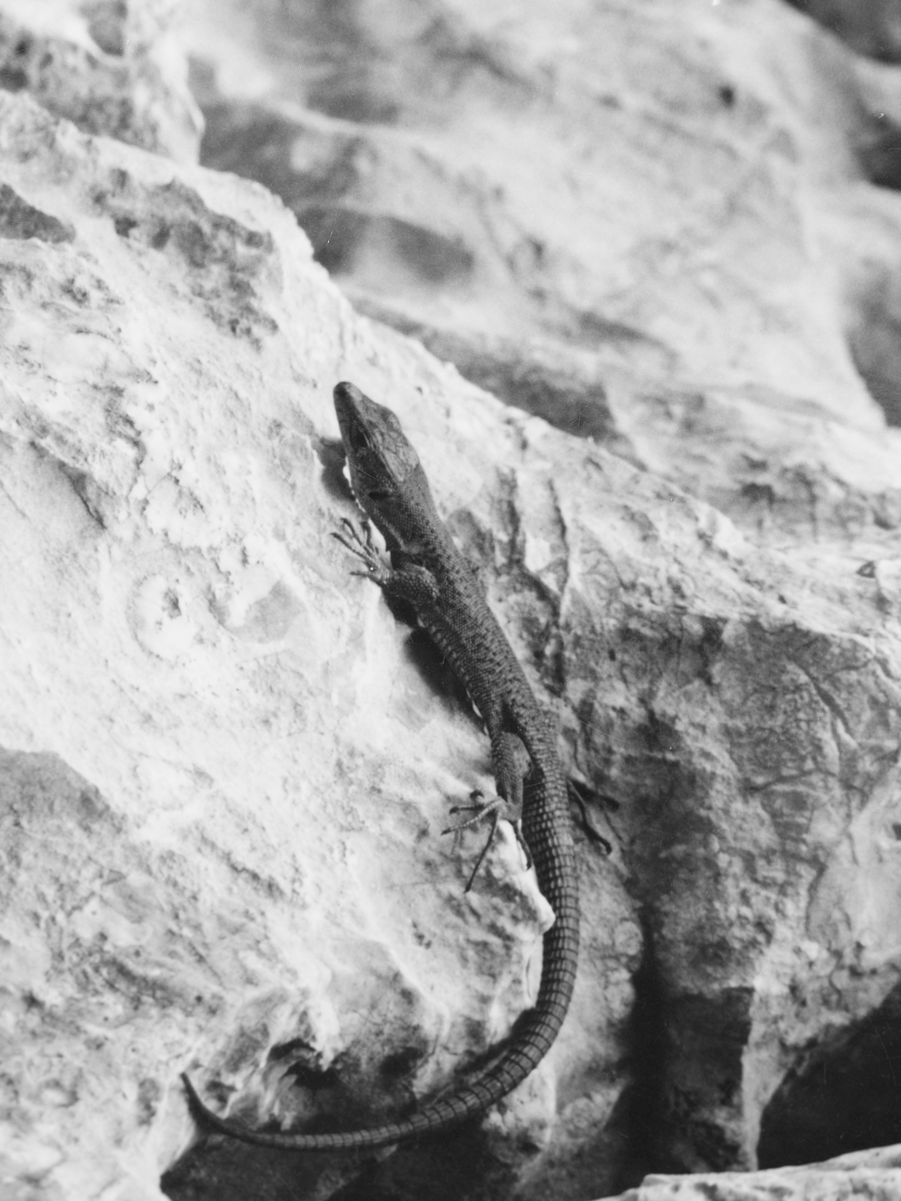 Dinarolacerta mosorensis subadult specimen Orjenska lokva 2002